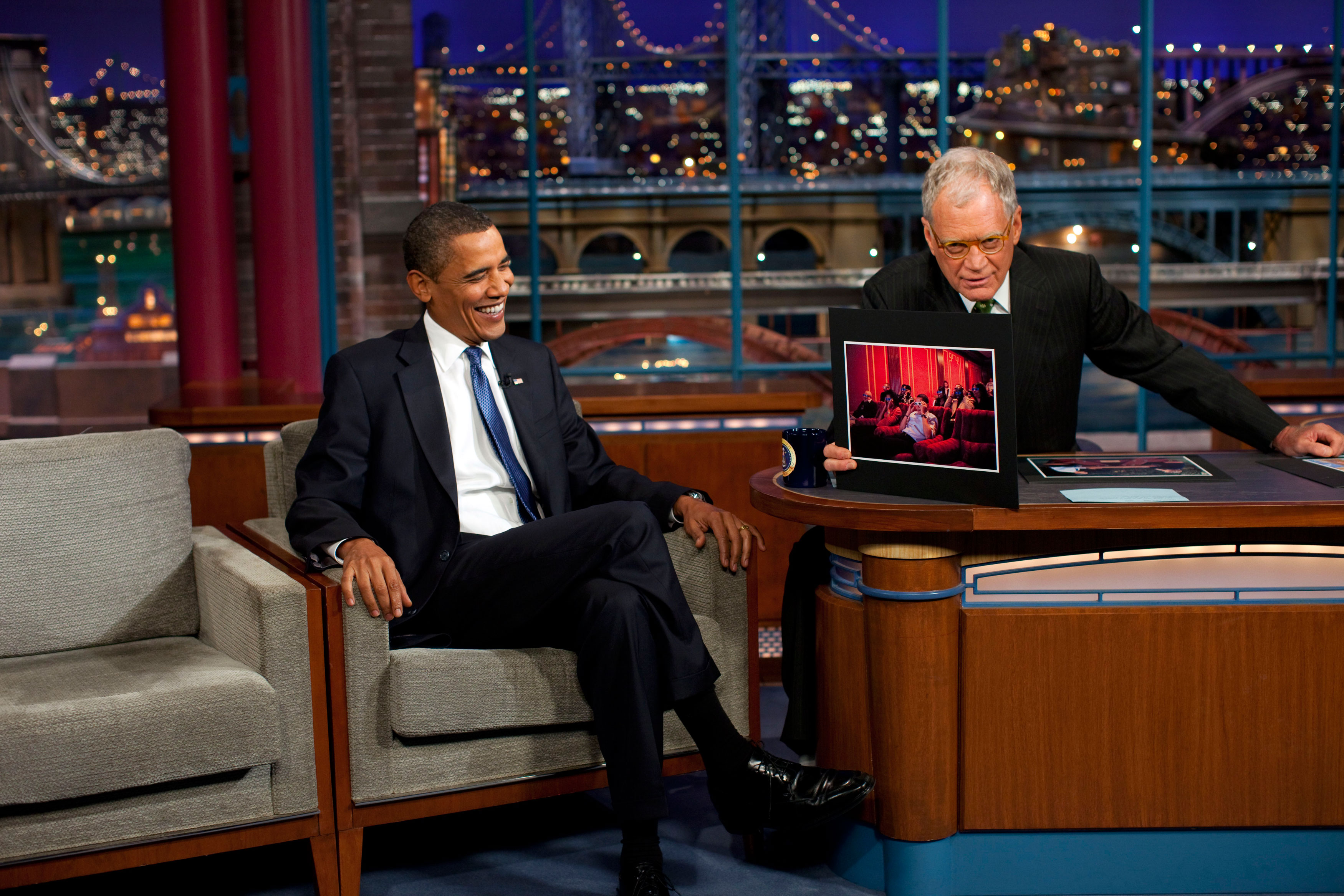 United States President Barack Obama laughs at a photograph of himself watching the 2009 Superbowl using 3D glasses shown by Late Show host David Letterman during their interview at CBS Studios in New York City on 21 September 2009.